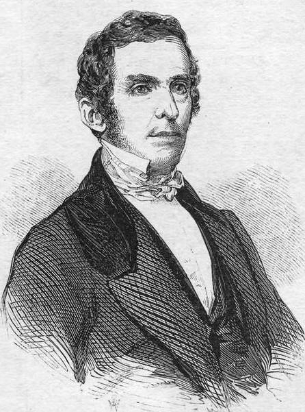 Jacob (Aaron) Westervelt (1800-1879) was a shipbuilder in the mid-1800s, and a Mayor of New York City 1853 - 1855